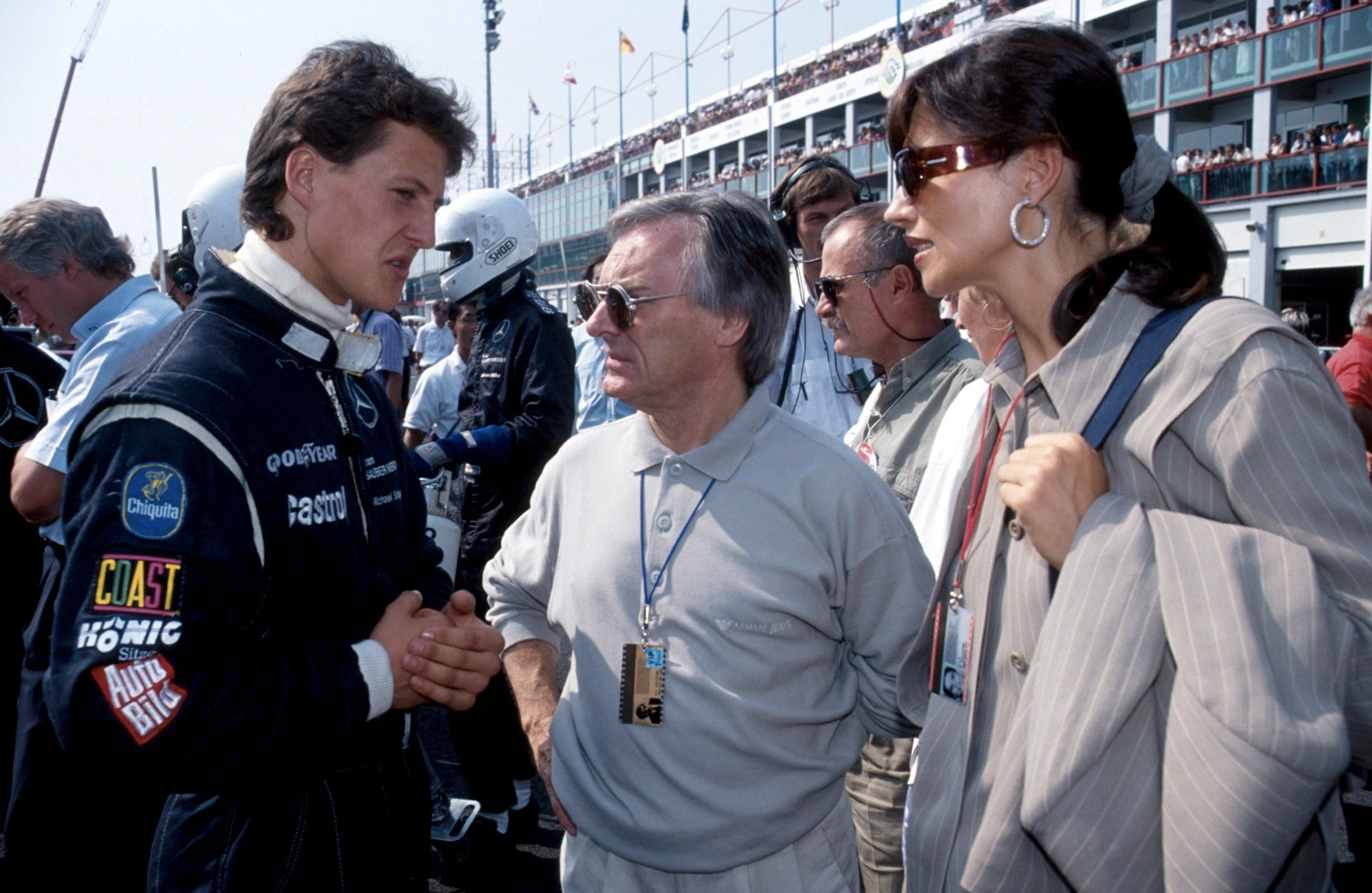 Michael Schumacher meeting Bernie Ecclestone at the Sportscar World Championship round at Magny-Cours in September 1991